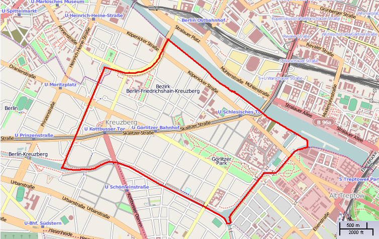 Berlin SO 36 (framed in red)